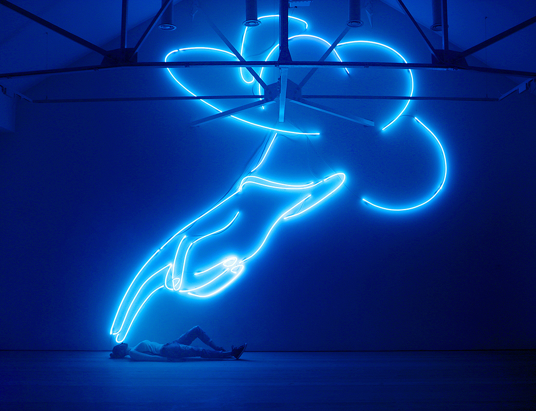 Stepan Ryabchenko, "The Blessing Hand", 500 x 500 cm, neon (2012-2013)